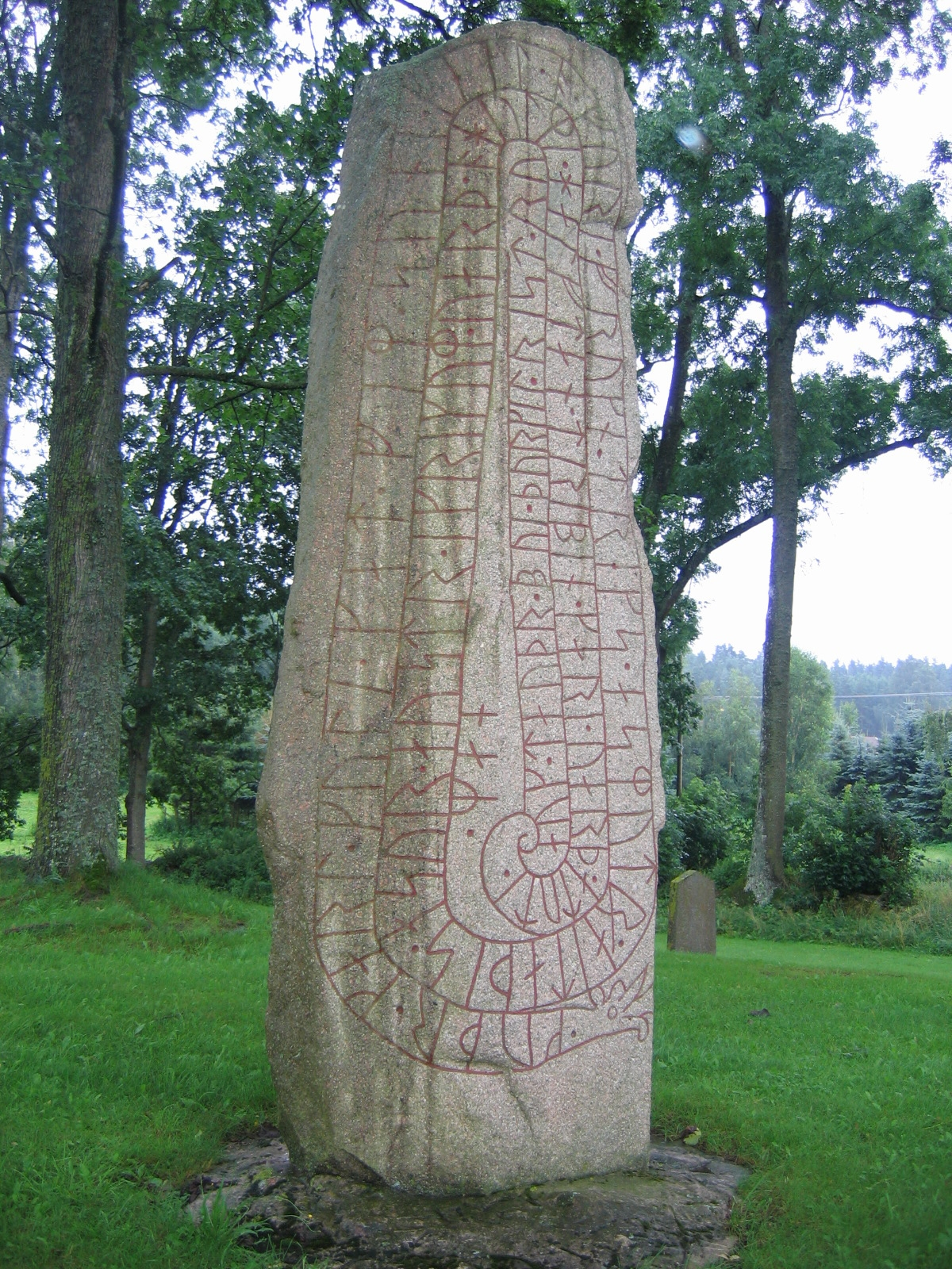 Side B of runestone Ög 81, located on the defunct cemetery of the former Högby church south of Motala, in Östergötland, Sweden.